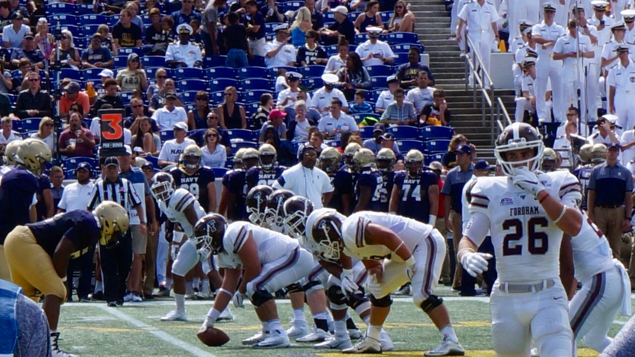 Fordham playing Navy in 2016.